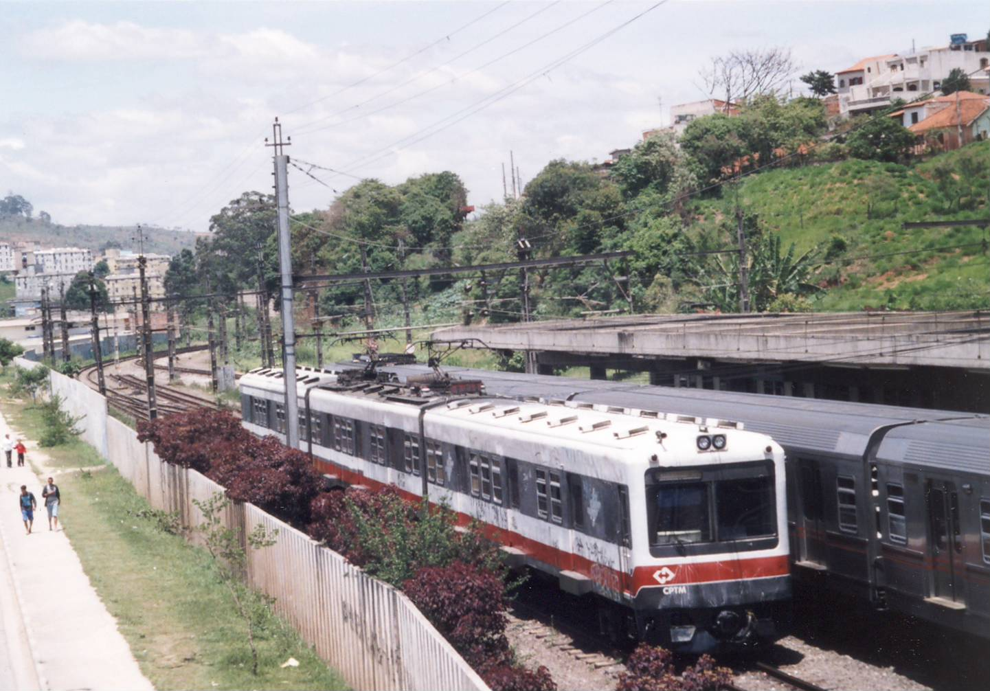 EMU type 4800 of CPTM, Brazil. at Itapevi station, State of Sao Paulo.